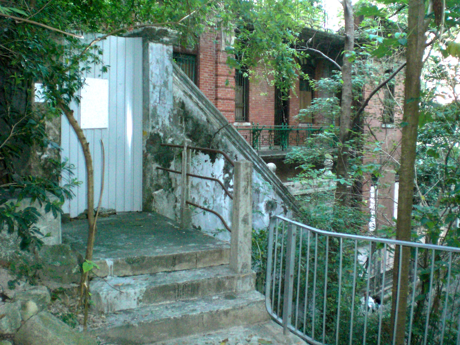 Outside stairs and railings at Nam Koo Terrace house in Hong Kong